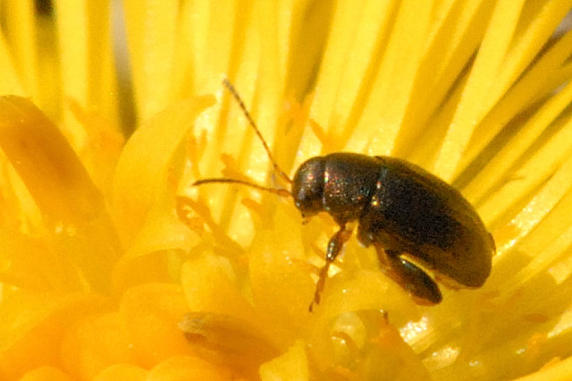 Longitarsus anchusae from Commanster, Belgian High Ardennes .